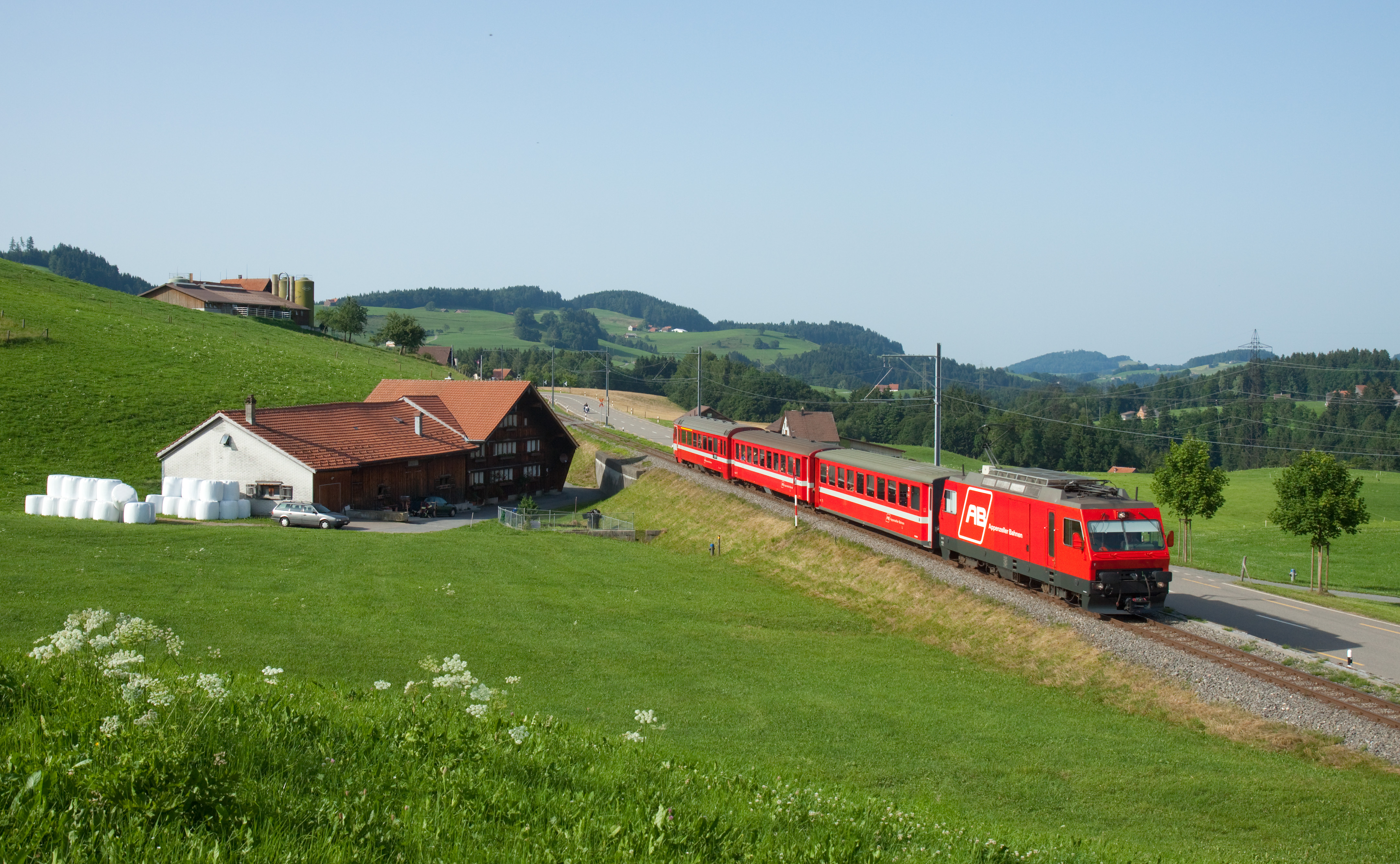 The only locomotive of the Appenzeller Bahnen with a push-pull train from Gossau SG to Appenzell. The locomotive is equipped for Rollbock operation, hence the standard gauge UIC couplers (which are not used any more today because Rollbock traffic has been discontinued).